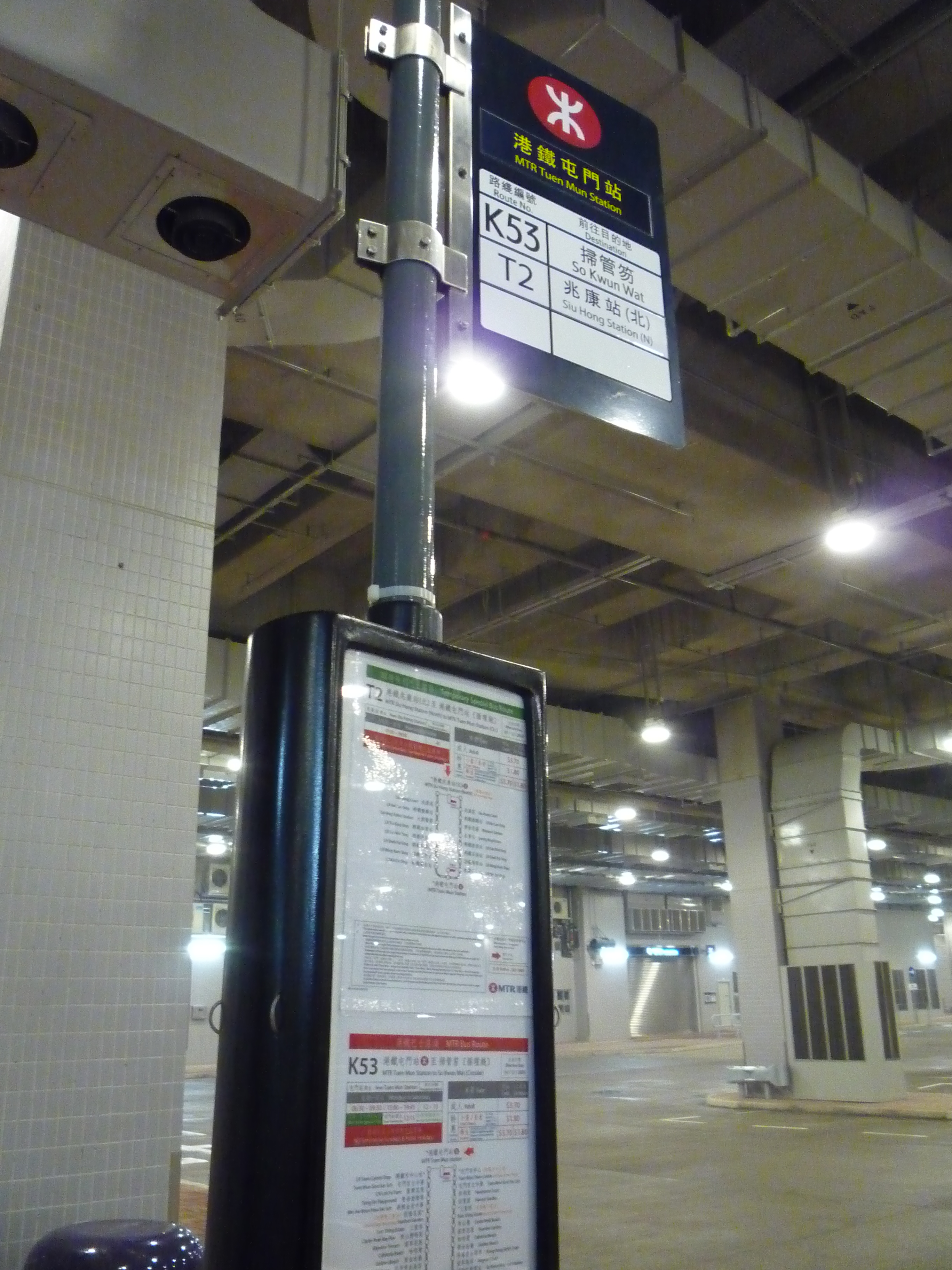 Tuen Mun Station Public Transport Interchange